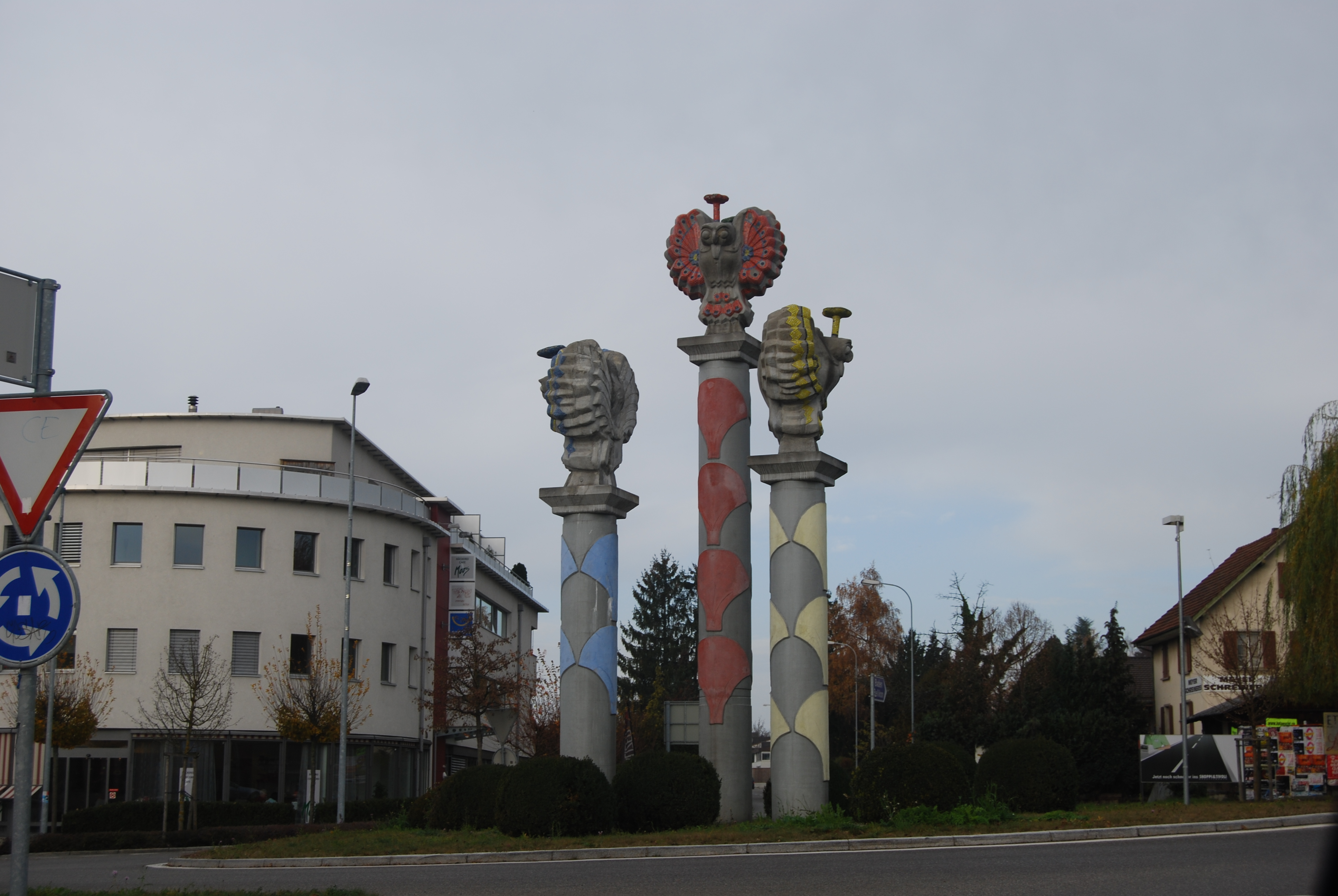 Widen, sculptures in roundabout, canton of Aargau, SwitzerlandEsperanto: Widen, skulpturoj en trafikcirklo, Kantono Argovio, Svislando